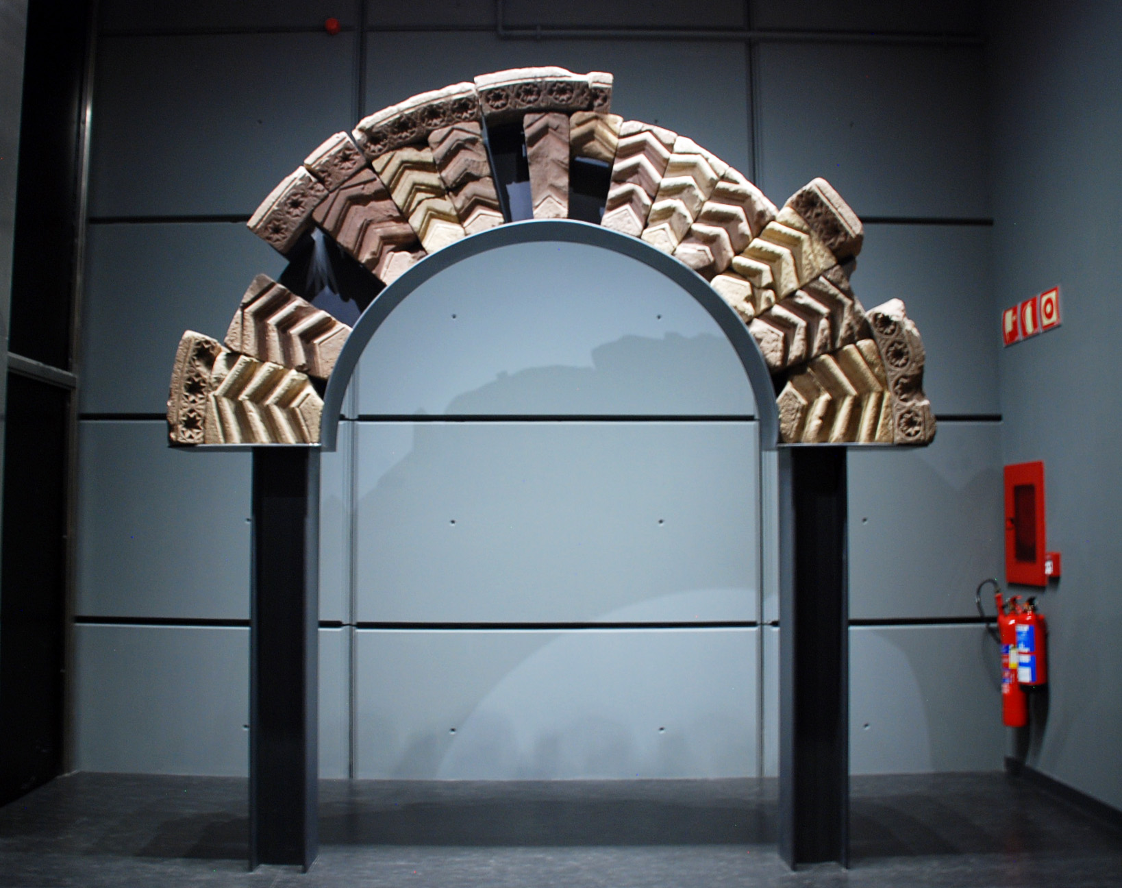 Museum of Prehistory and Archaeology of Cantabria. Romanesque recovered arch from San Juan de Raicedo (Arenas de Iguña, Cantabria).